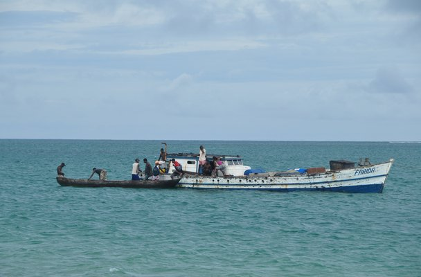 Workers loading illegally logged rosewood onto a transport vessel bound for the nearest major port. Photographed near Cap Est, adjacent to Masoala National Park